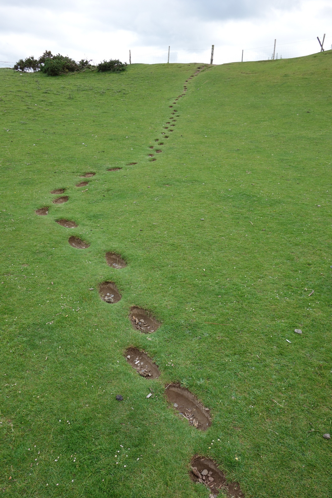 Dan Donnelly (March 1788 – 18 February 1820) was a professional boxing pioneer and the first Irish-born heavyweight champion. At this location he won bouts against Tom Hall and George Cooper. As Donnelly proudly strode up the hill towards his carriage, fanatical followers dug out imprints left by his feet. Leading from the monument which commemorates the scene of his greatest victory, "The Steps to Strength and Fame"